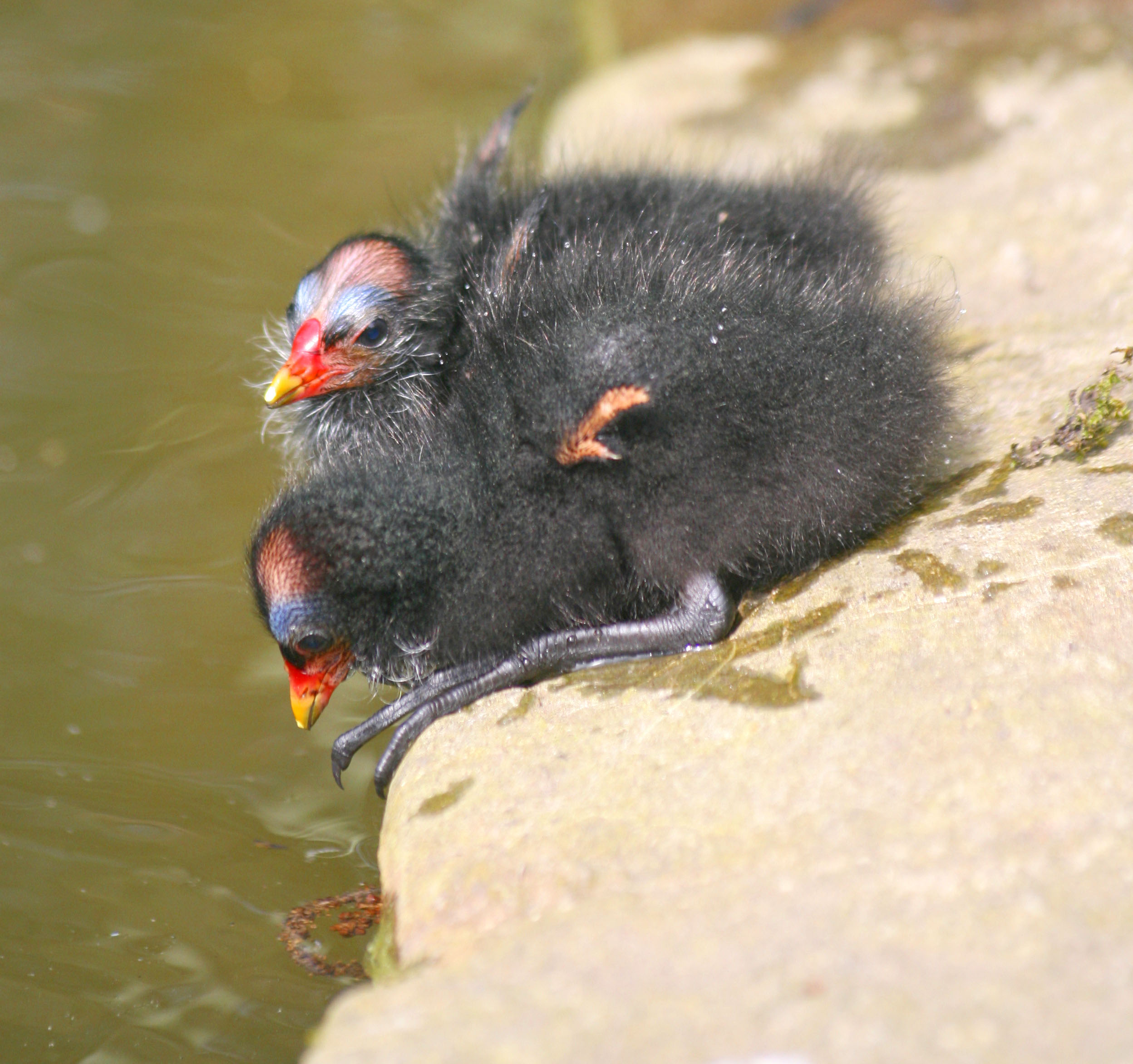 Two Common Moorhen chicks by the water at Regents Park, London, England.